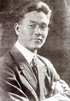 Chang Myon, join of Ordo Fratrum Minorum Conventualium members